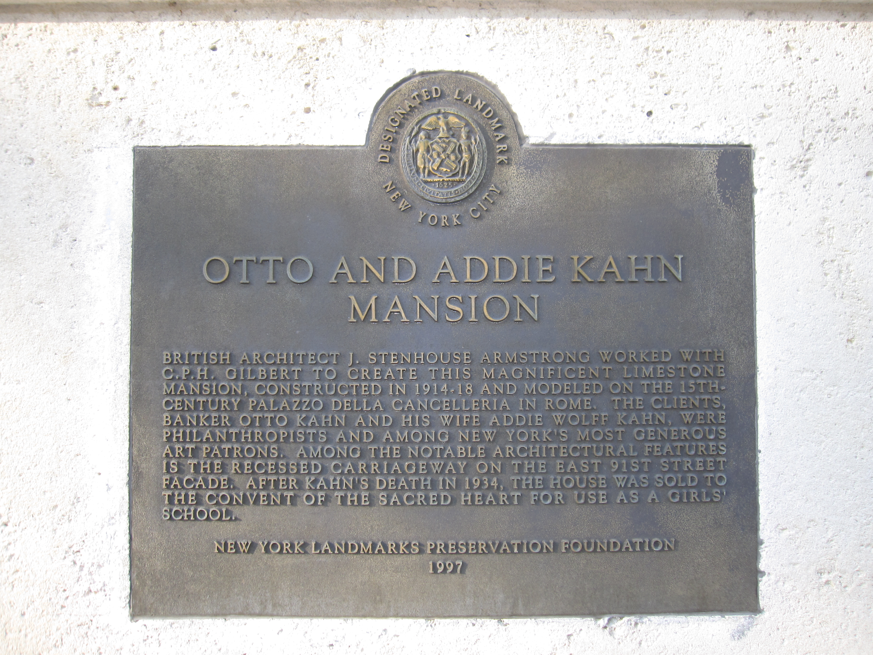 Otto Kahn Mansion